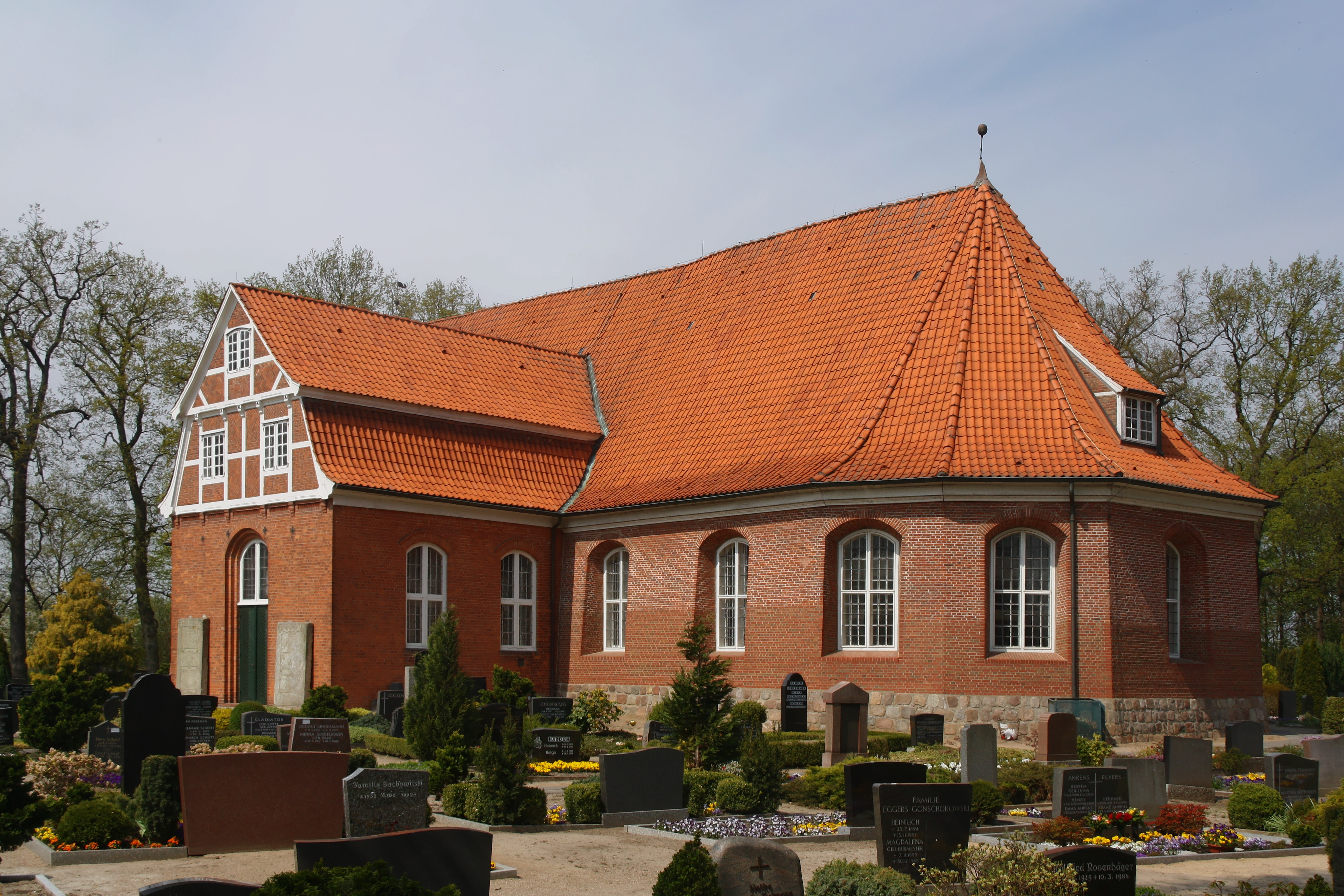 Church St. Severini, Hamburg-Kirchwerder, view from south-east